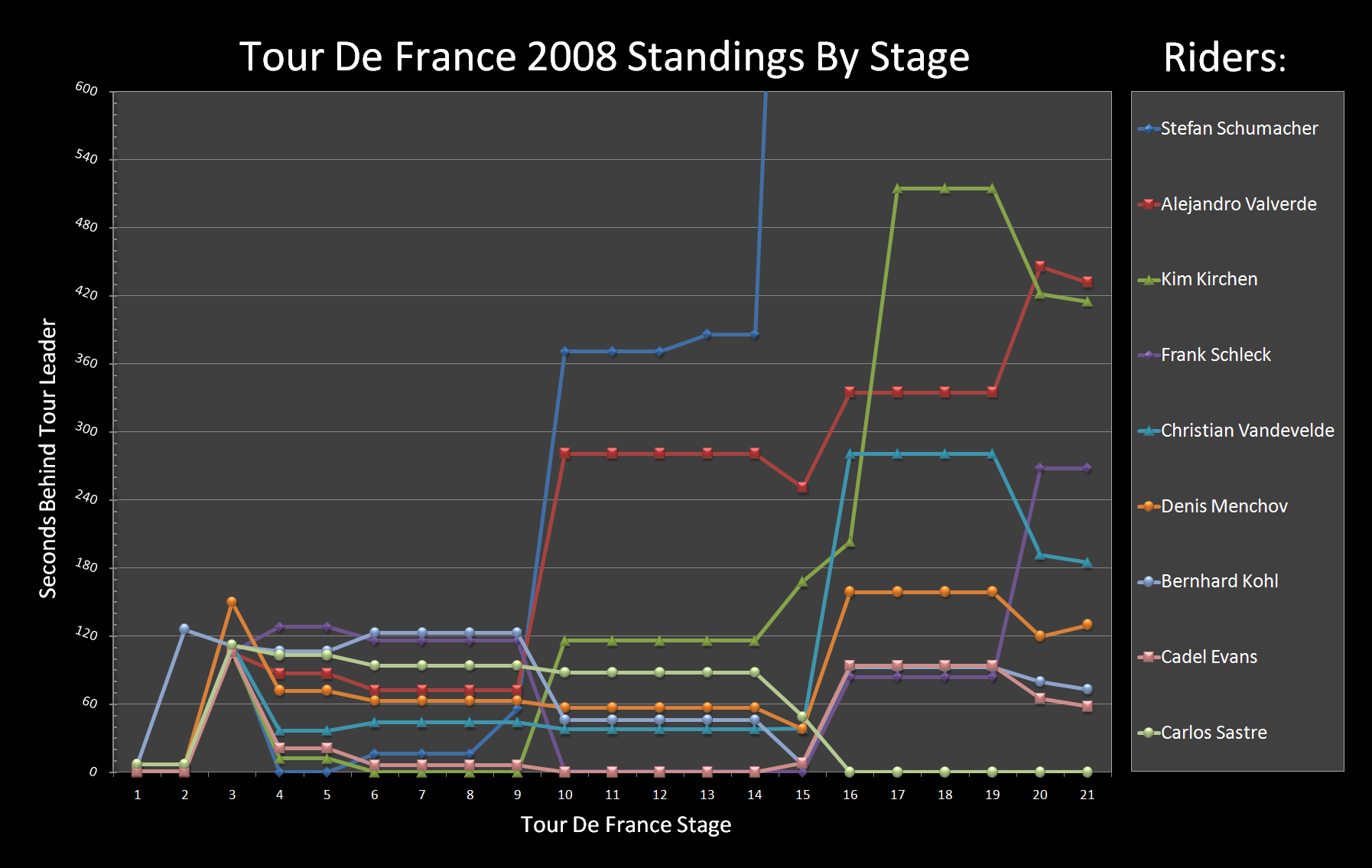 Standings of 7 influential cyclists charted by stage in the Tour De France 2008. Created by myself in MS Excel 2007